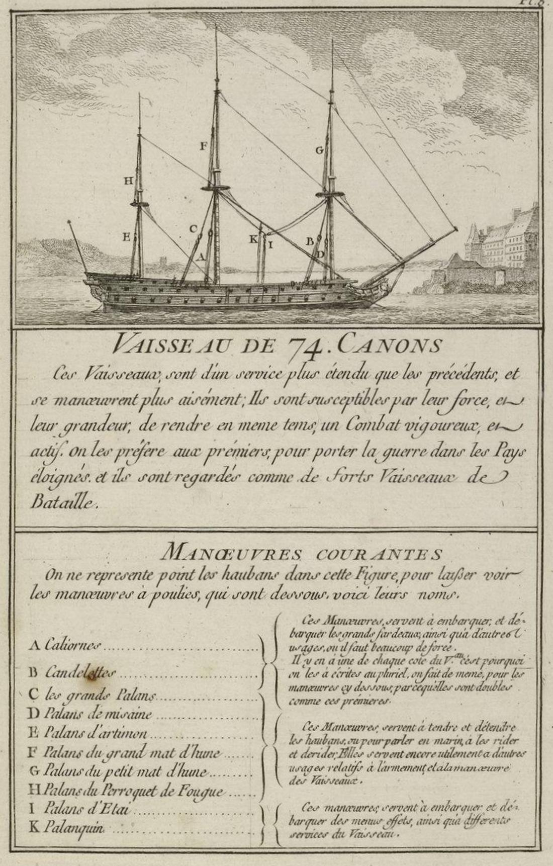 Ship of 74 guns. Text and drawings made ​​by Nicolas Ozanne, 1764.